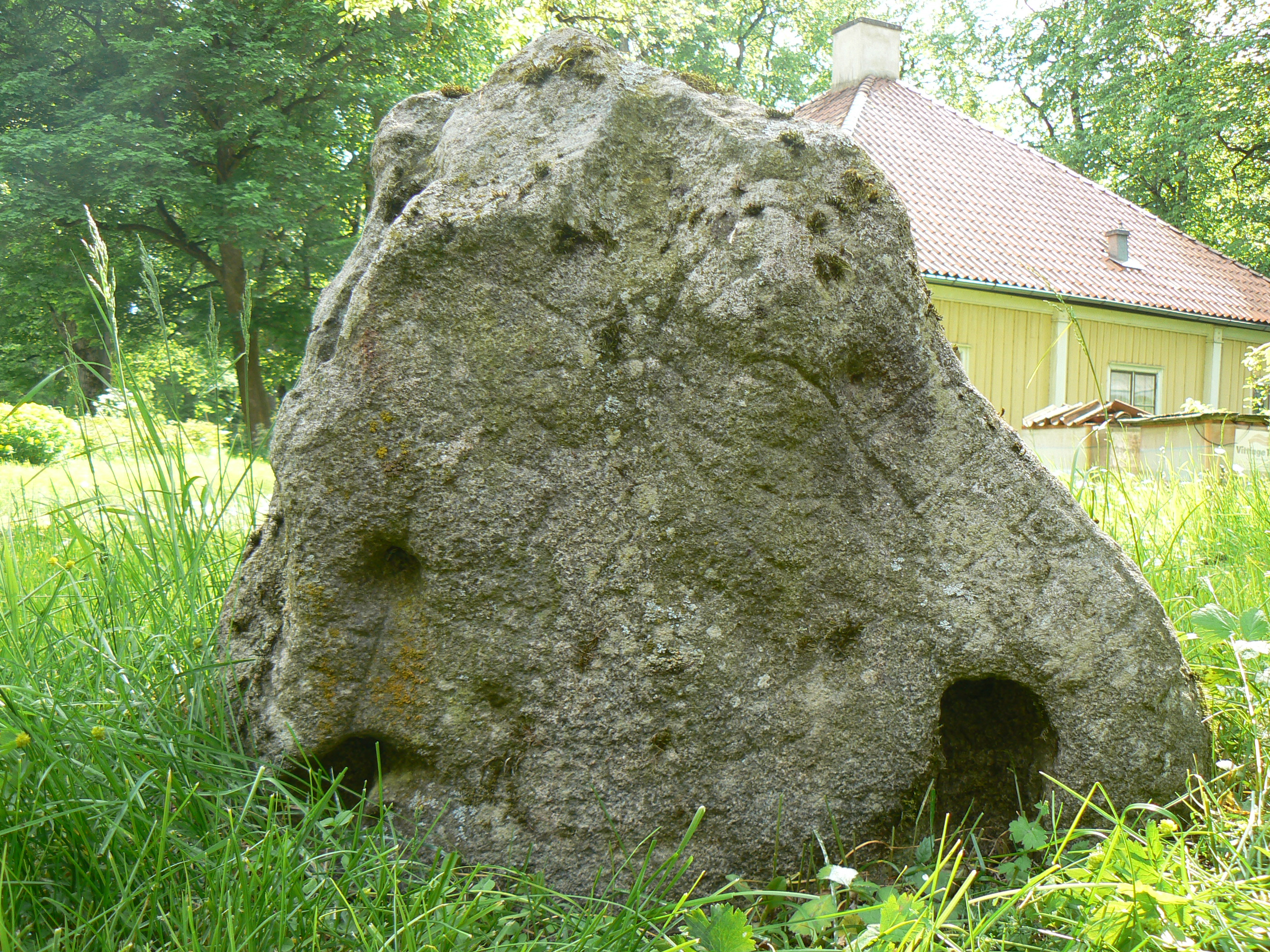 Smålands runinskrifter 128 ("Runic Inscriptions of Småland, no 128"), runestone at Göberga west of Tranås in Småland, Sweden.